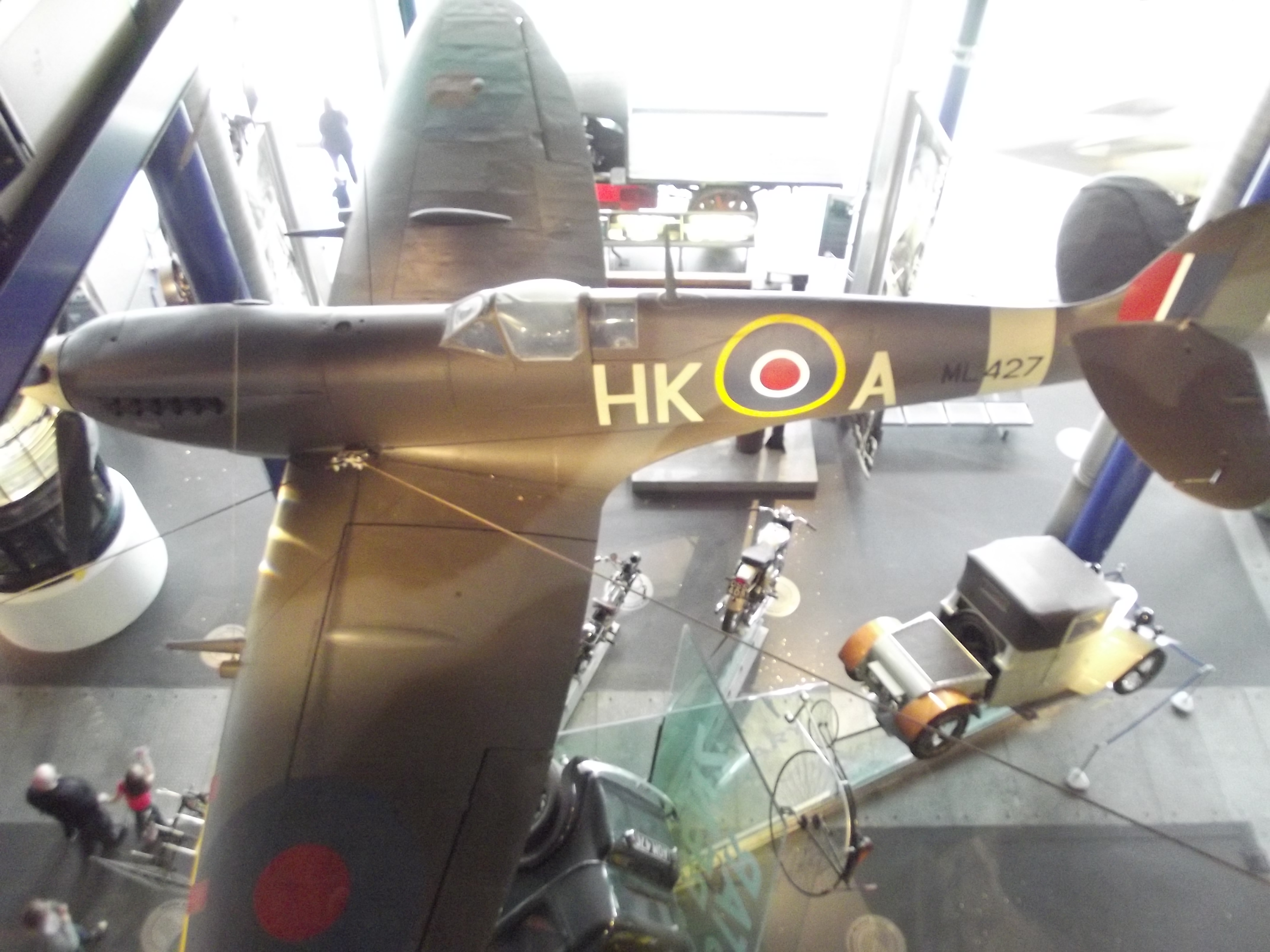 A collection of old vehicles on Level 0 of Thinktank Birmingham Science Museum. The area called "Move It" These were most likely in display at one time or another in the old Science Museum on Newhall Street (until 1997). When not on display, some of them had been stored at the Museum Collections Centre on Dollman Street in Nechells. This plane from World War 2 is the Supermarine Spitfire Mark IX. It was one of 11,000 built by Vickers Armstrong in Castle Bromwich, Birmingham. The hunt is currently one for buried Spitfire's in Burma. So far they haven't found the parts. There may also be some buried near the factory in Castle Bromwich. Taken from "The Present" level (there was a hole with barriers in the floor).